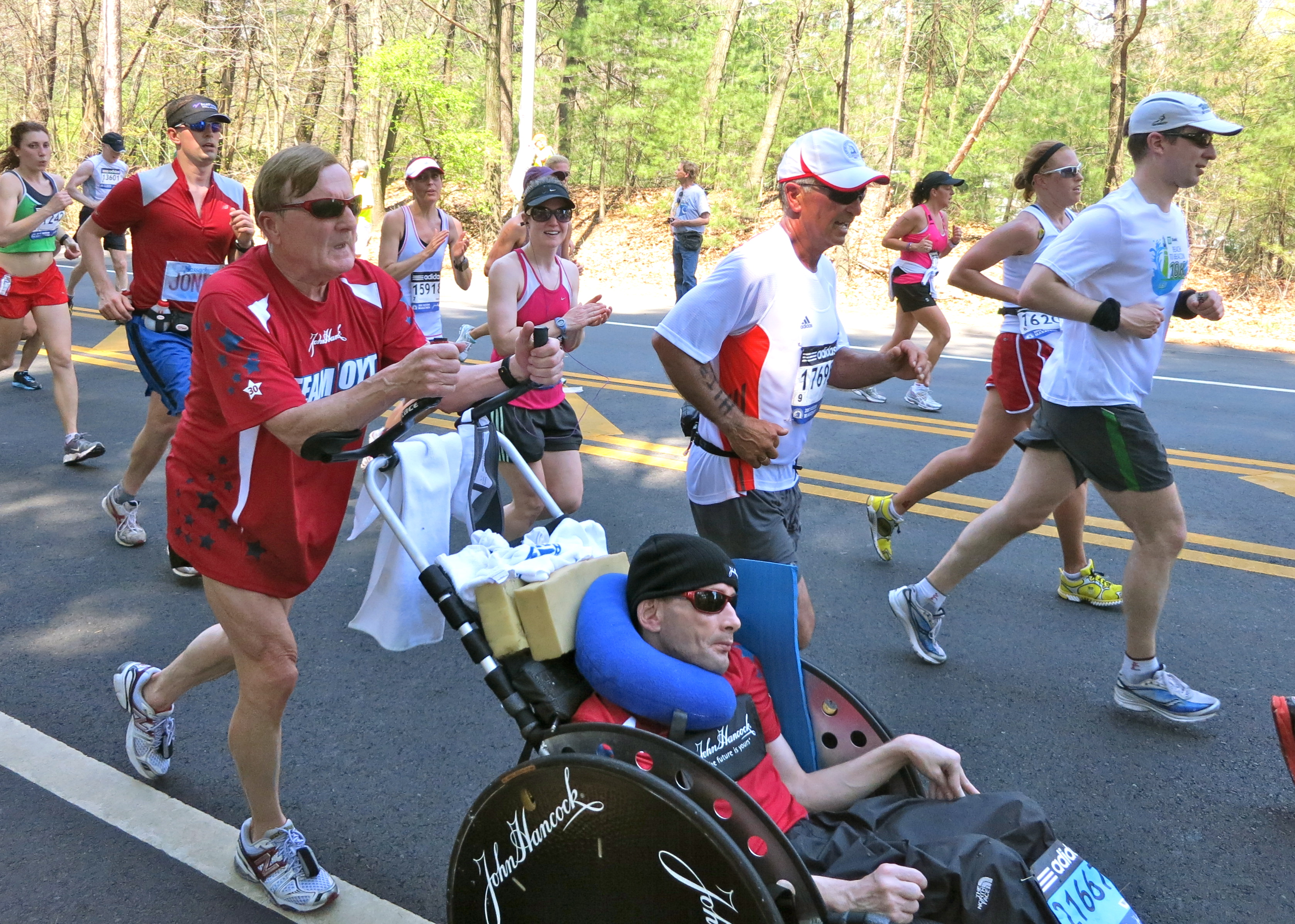 April 16, 2012